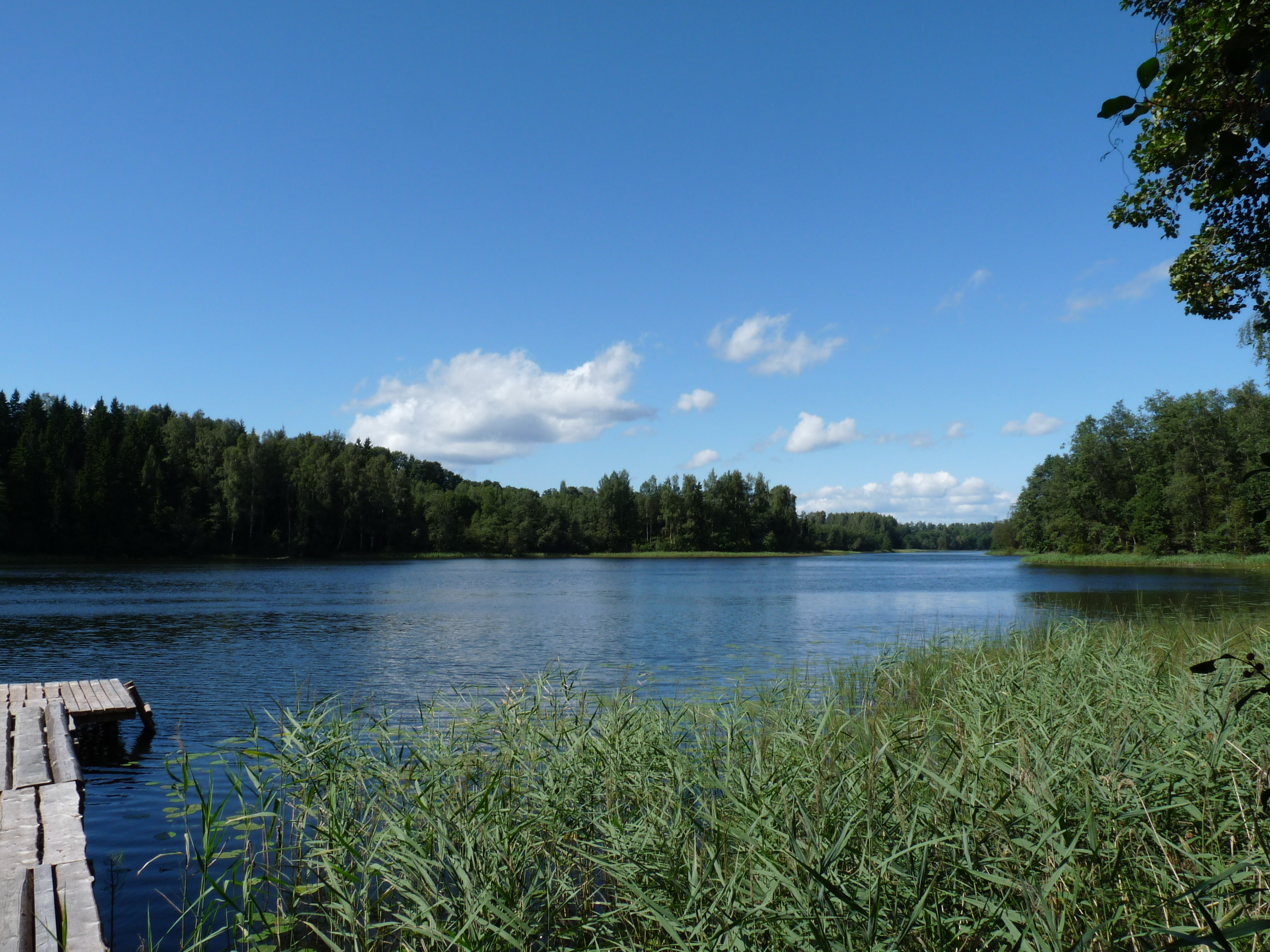 Lake of Kahrila in Võrumaa, Estonia